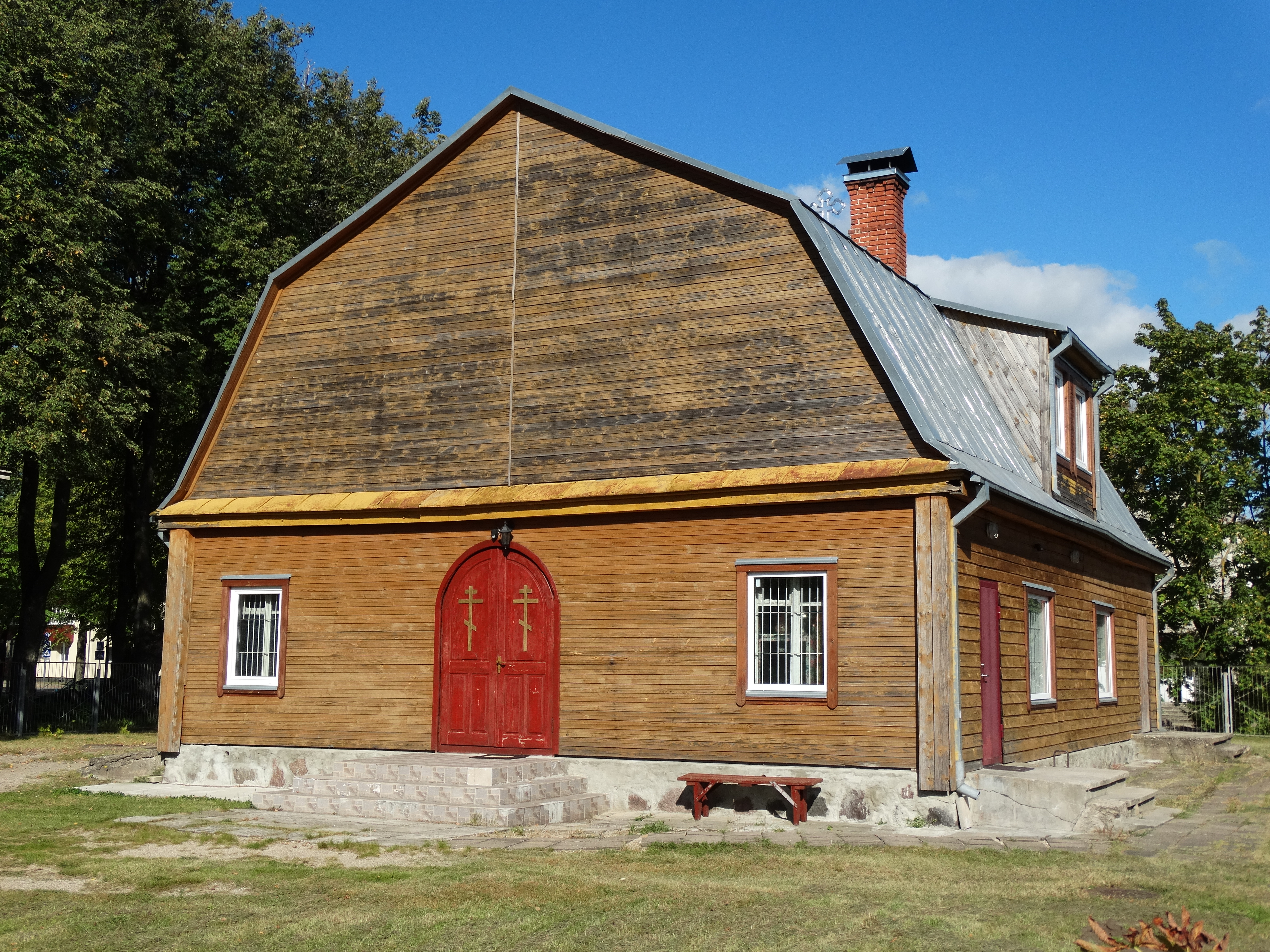 Orthodox Church of the Ascension of Christ, Utena, Lithuania